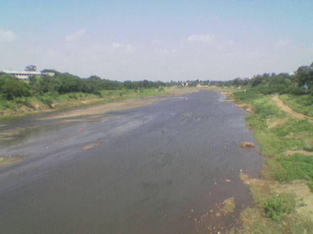 picture of Gomai River in Shahada (Maharashtra, India) taken from bridge located at co-ordinates 21.569,74.483